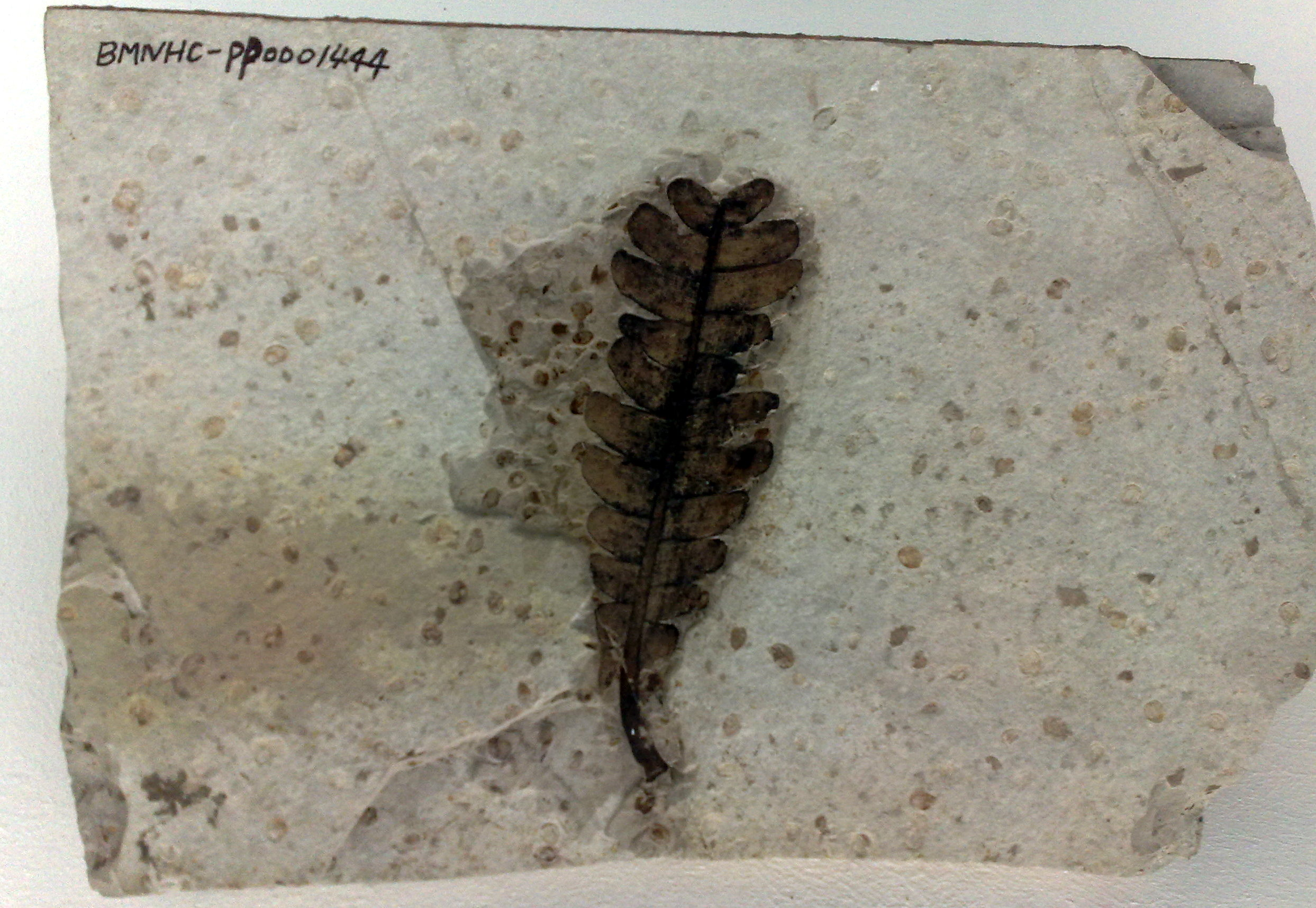 Anomozamites